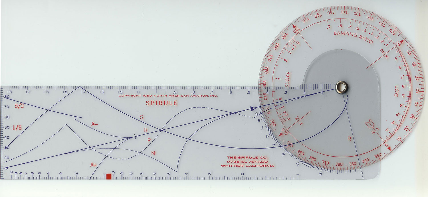 Spirule photo by Nathan Zeldes